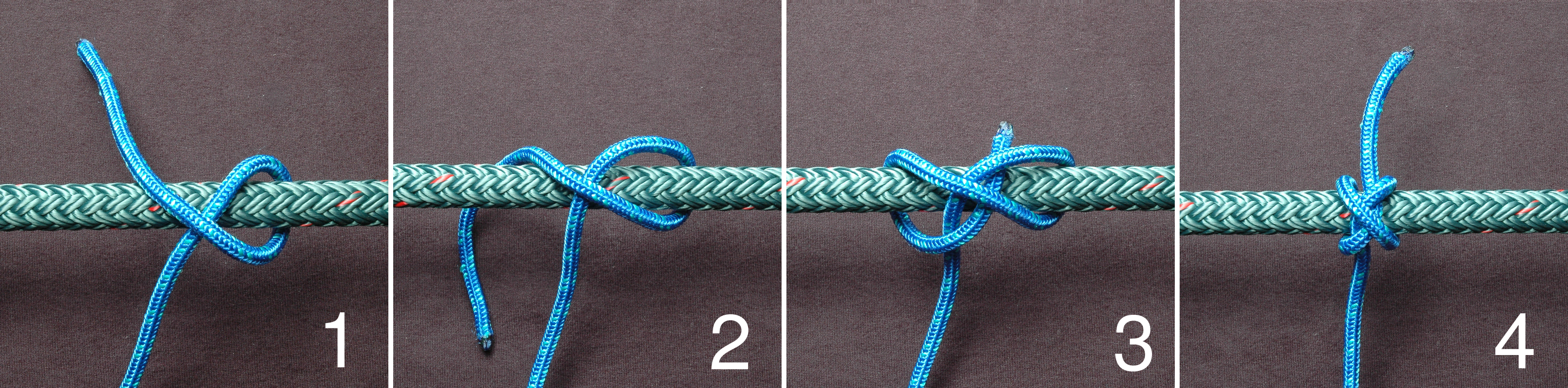 Four steps in tying a Constrictor knot, ABOK #1249.